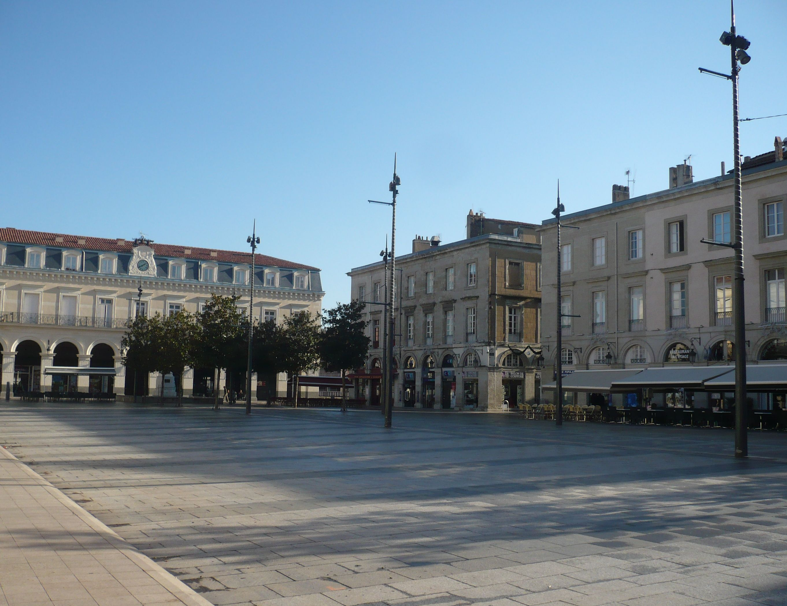 Castres